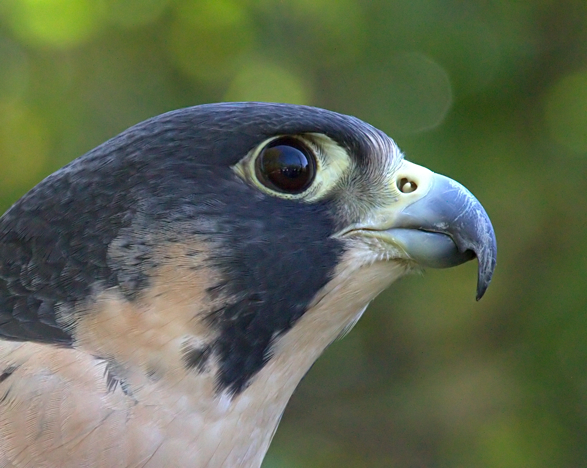 Closeup of peregrine falcon showing nostril tubercle. Photo by Greg Hume